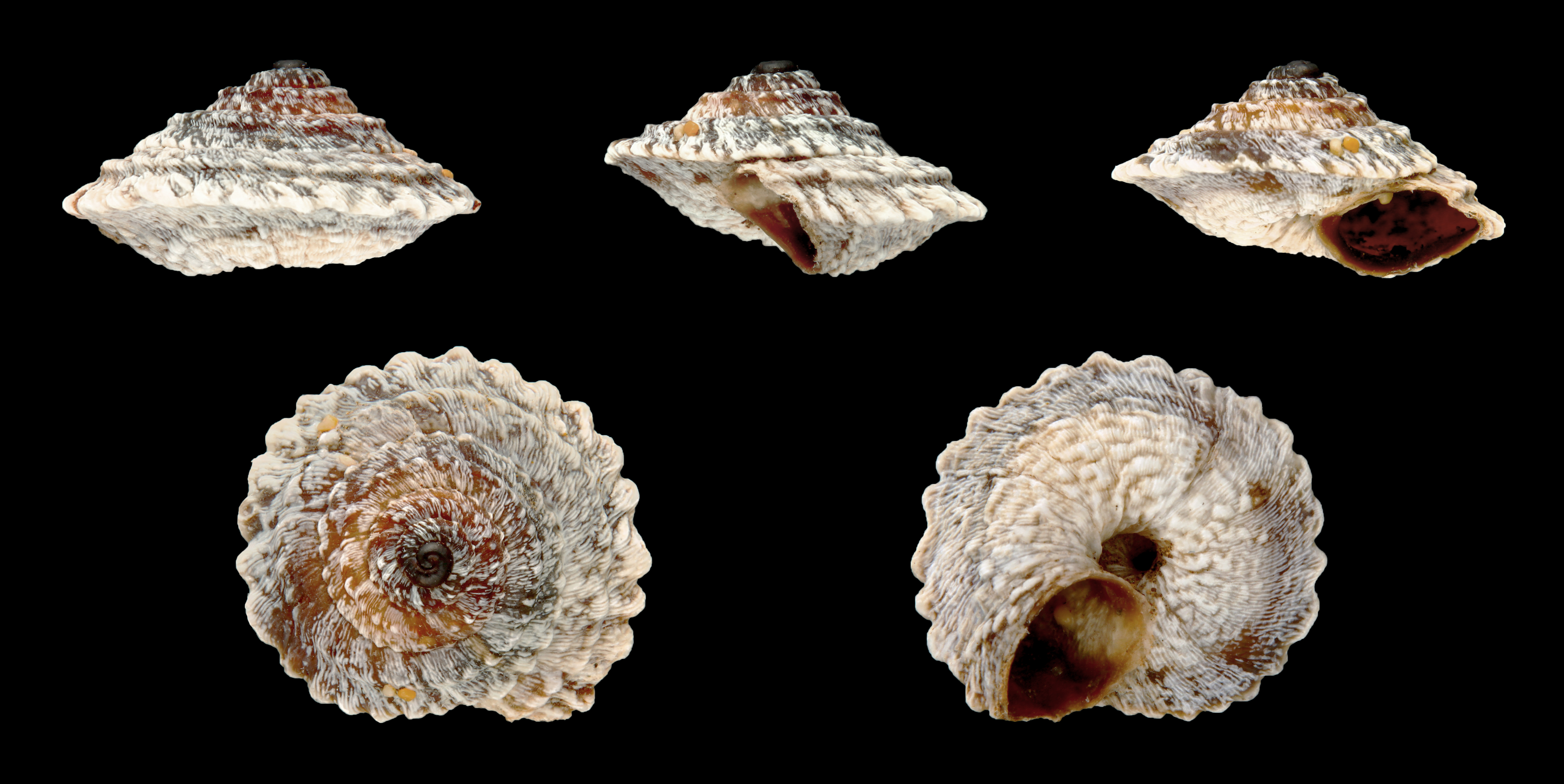 Diameter 0.8 cm; Originating from Cofete, Fuerteventura, Canary Islands, Spain. 28°6′34.69″N 14°23′19.82″W / 28.1096361°N 14.3888389°W; Shell of own collection, therefore not geocoded.